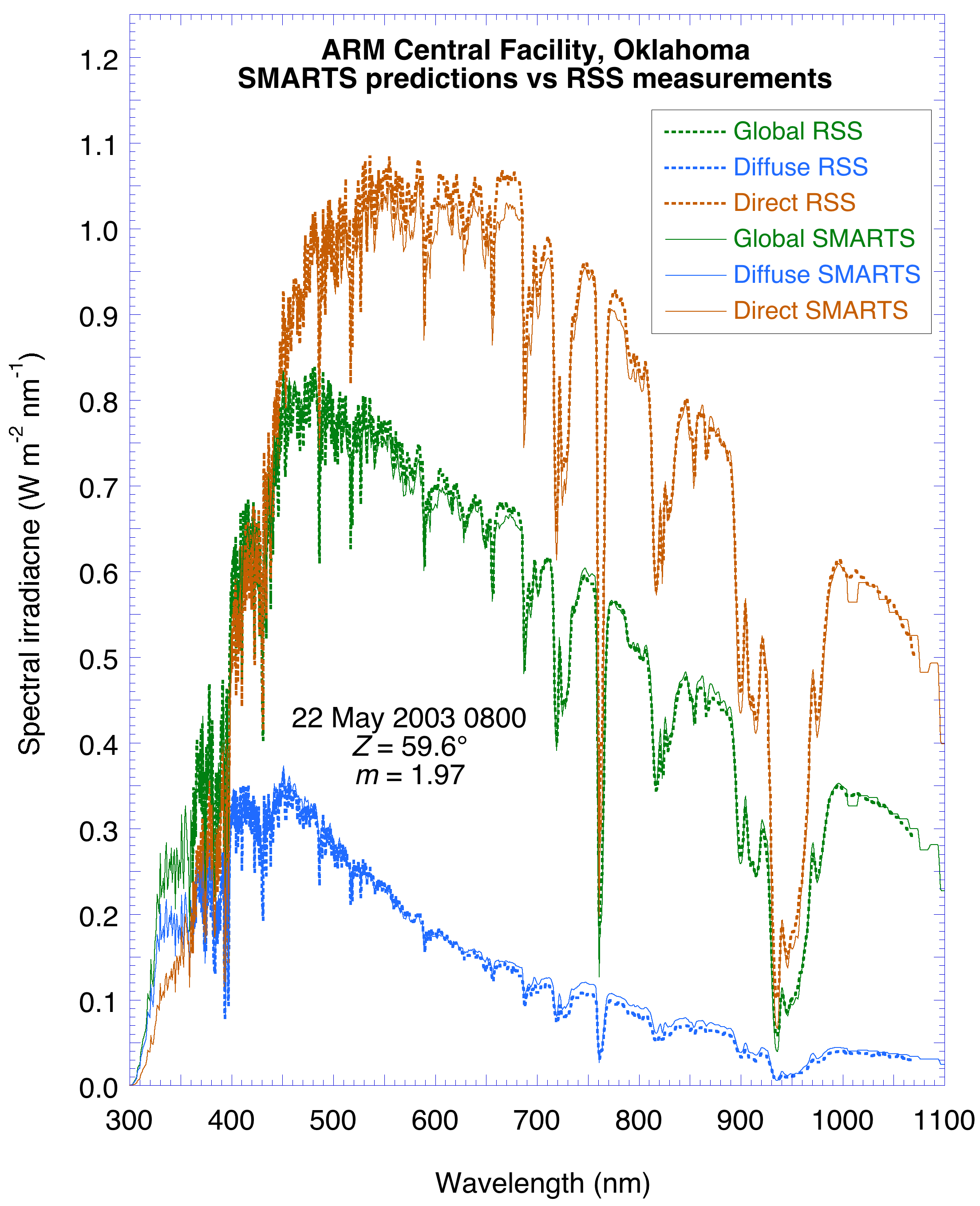 Plot comparing the spectral irradiance components (diret, diffuse, global) measured by a Rotating Shadowband Spectroradiometer (RSS) and predicted by the SMARTS model, v2.9.5. The RSS was installed at ARM's SGP CART site in Oklahoma. The inputs to the model were provided mostly by a collocated sunphotometer.